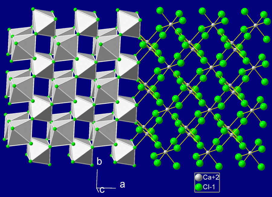 Crystal structure of hydrophilite